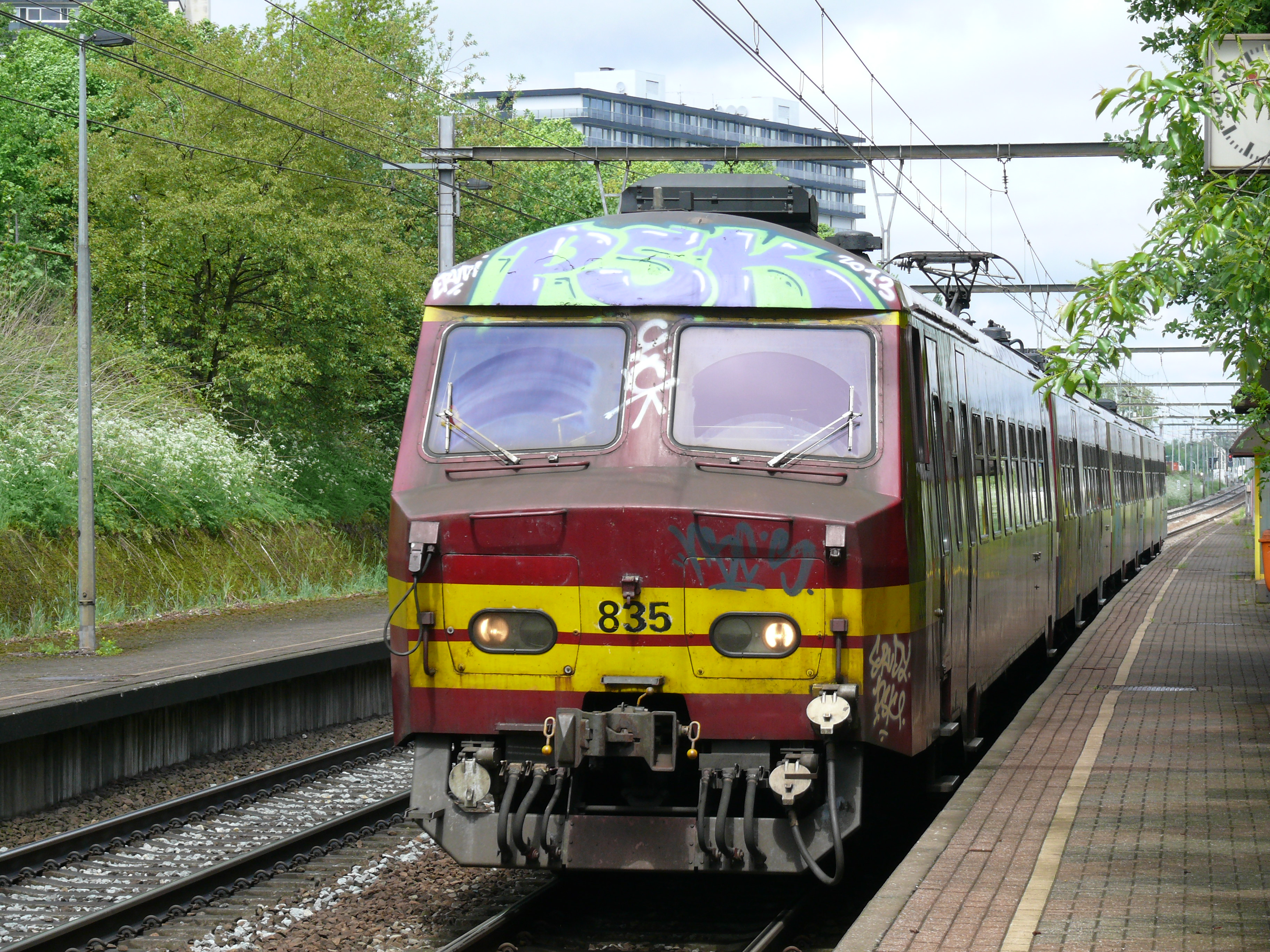 NMBS 835 (type MS75) arriving at platform 2 in Mortsel-Deurnesteenweg train station.